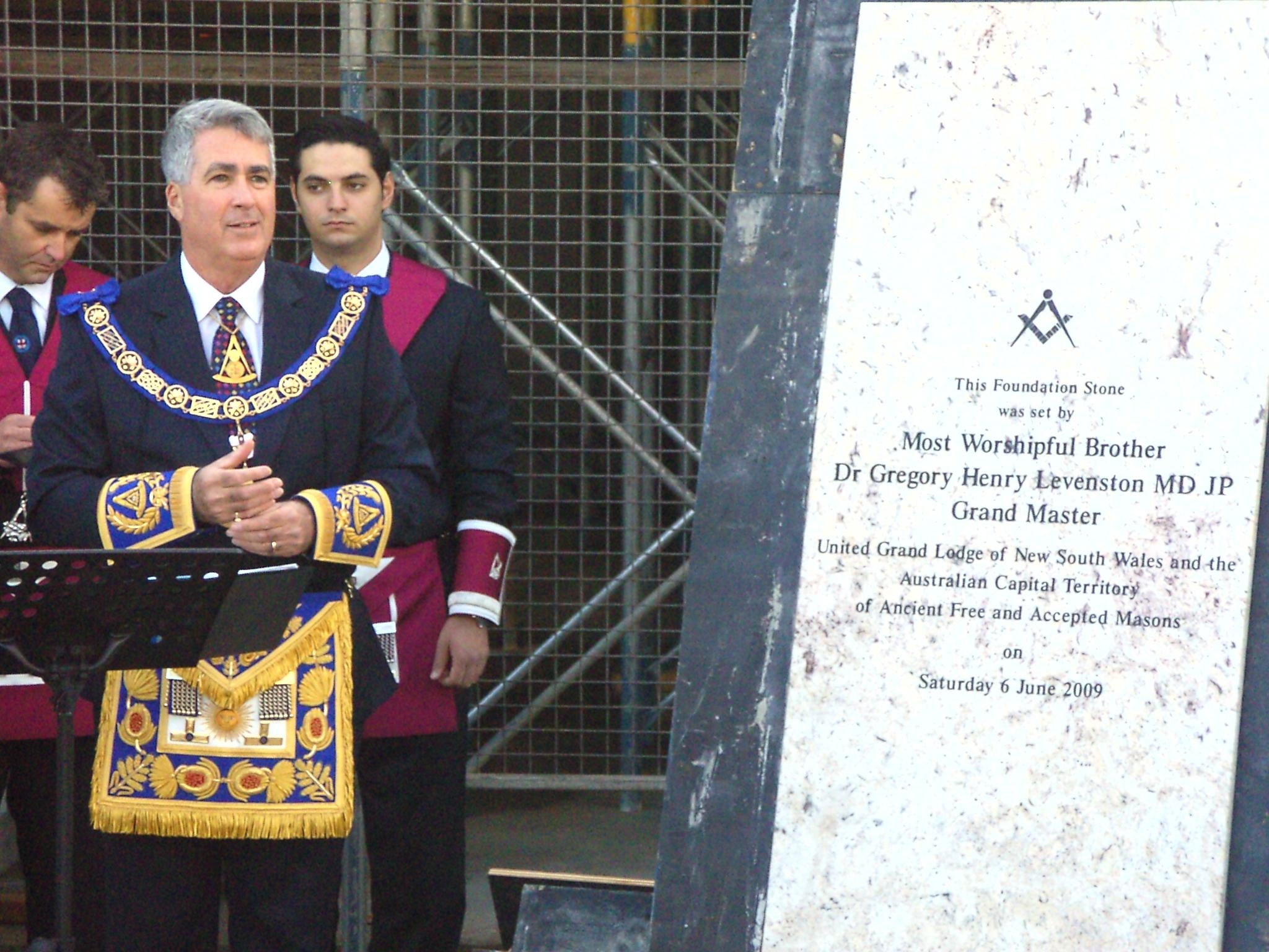 MWBro Dr Gregory Levenston MD JP, Grand Master of the United Grand Lodge of New South Wales and the Australian Capital Territory, laying the Foundation Stone of the Canberra Masonic Centre, 2009-06-06.